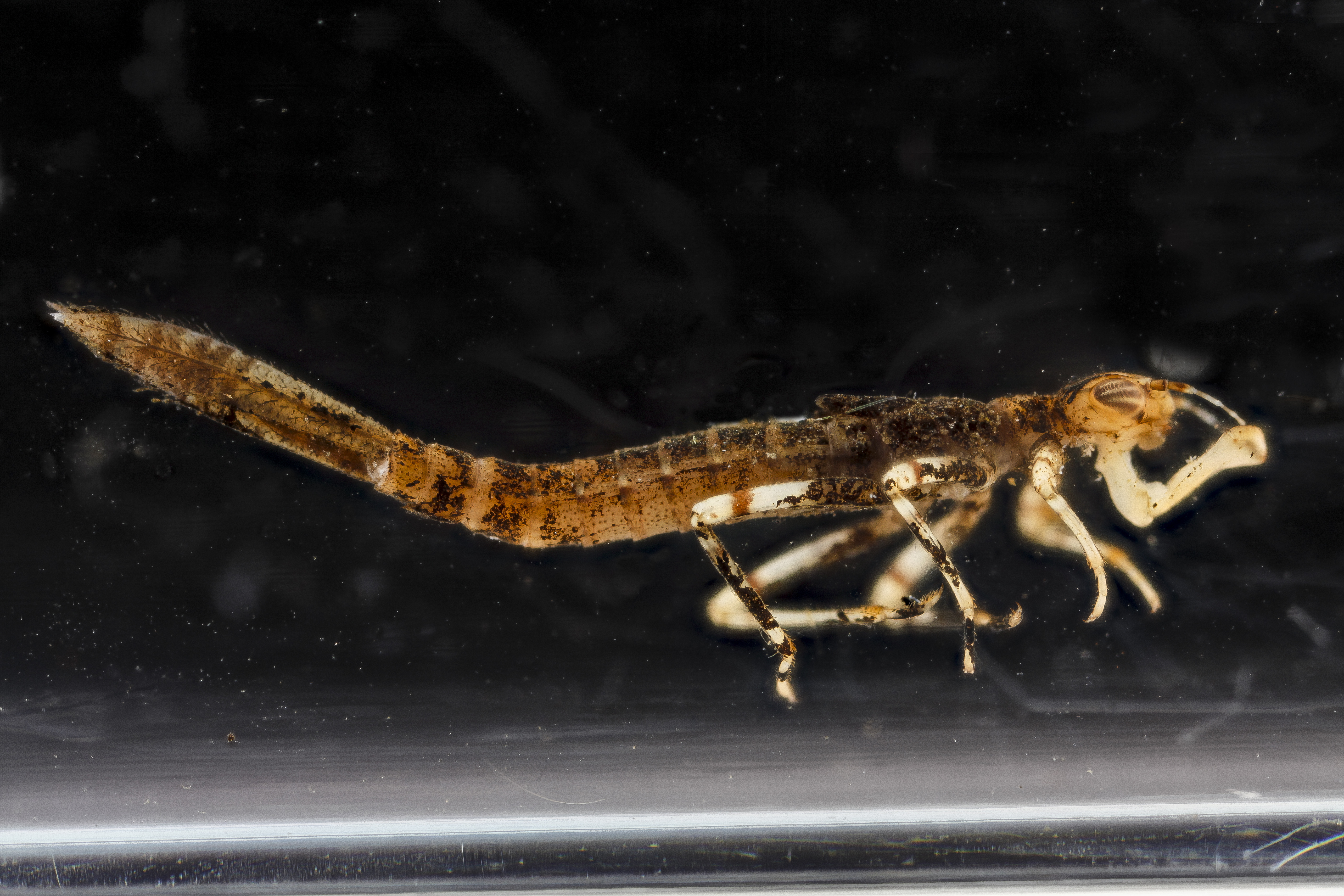 Beltsville, Maryland, damselfly nymph, unknown species, Floating in hand sanitizer